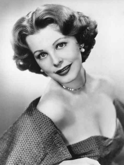 Publicity photo of Arlene Dahl.